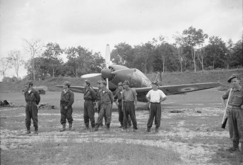 Japanese aircraft taken over by the Allies in Malaya were tested and evaluated by Japanese naval pilots under the supervision of Royal Air Force officers. Here Japanese ground crew watch one of their aircraft. Behind them stands a Mitsubishi J2M Raiden (known to the Allies as a 'Jack').